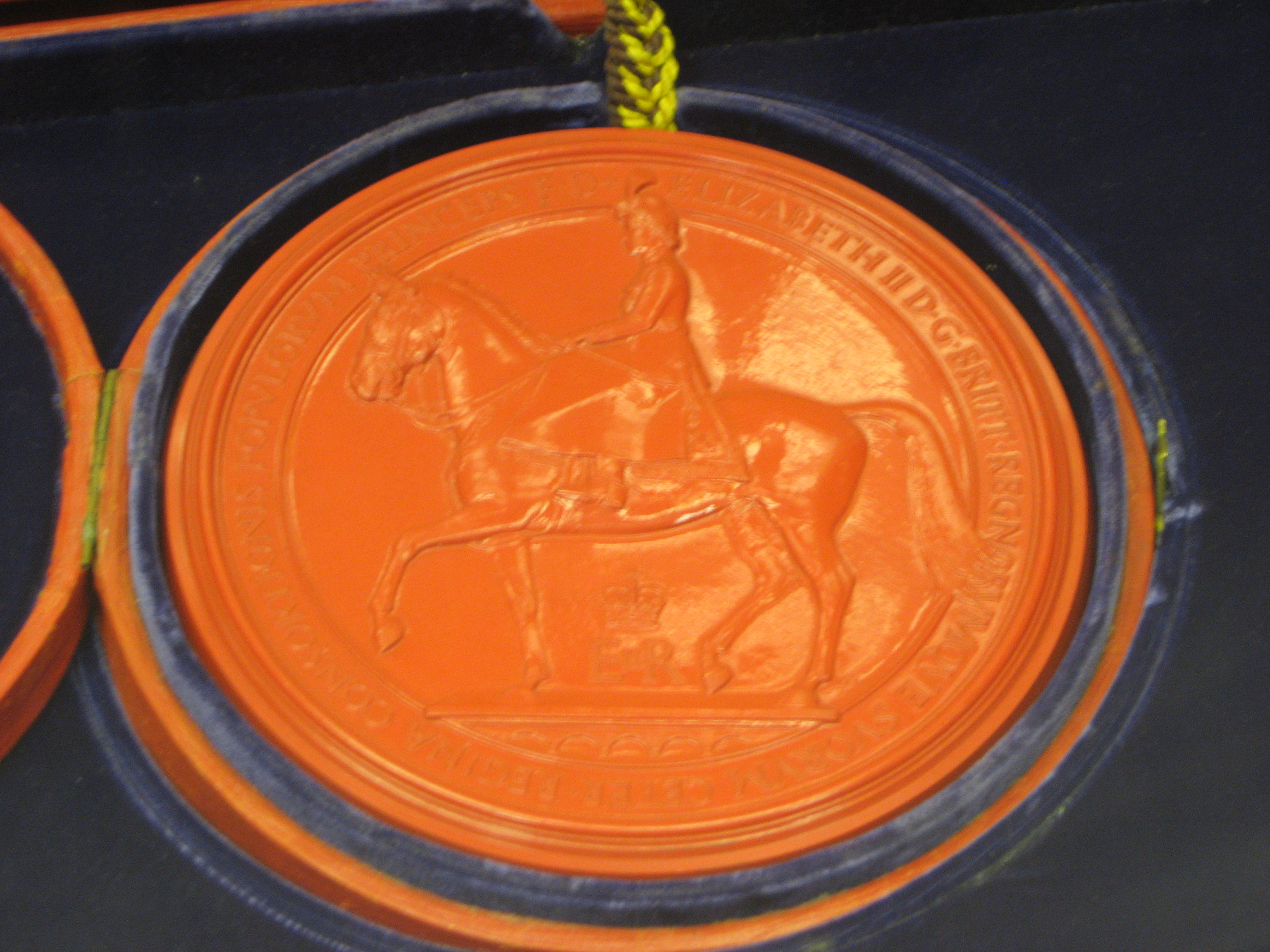 Reverse side of the Great Seal of the Realm 1953 attached to the Oxford Lord Mayoralty letters patent.